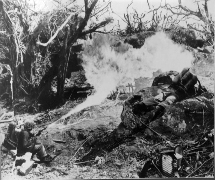 Two U.S. Marines using flamethrowers on Tarawa during world War II in 1943. Probably during the Battle of Tarawa, but the source web page didn't actually state this.